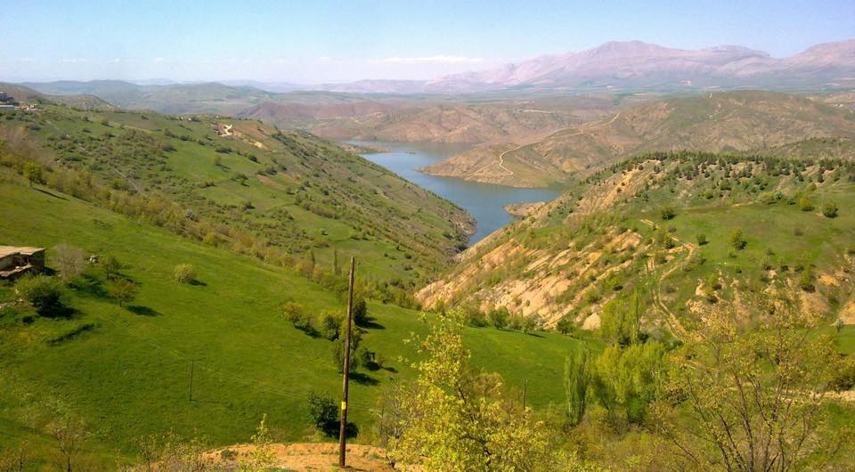 Sicht auf den Kandil-Staudamm